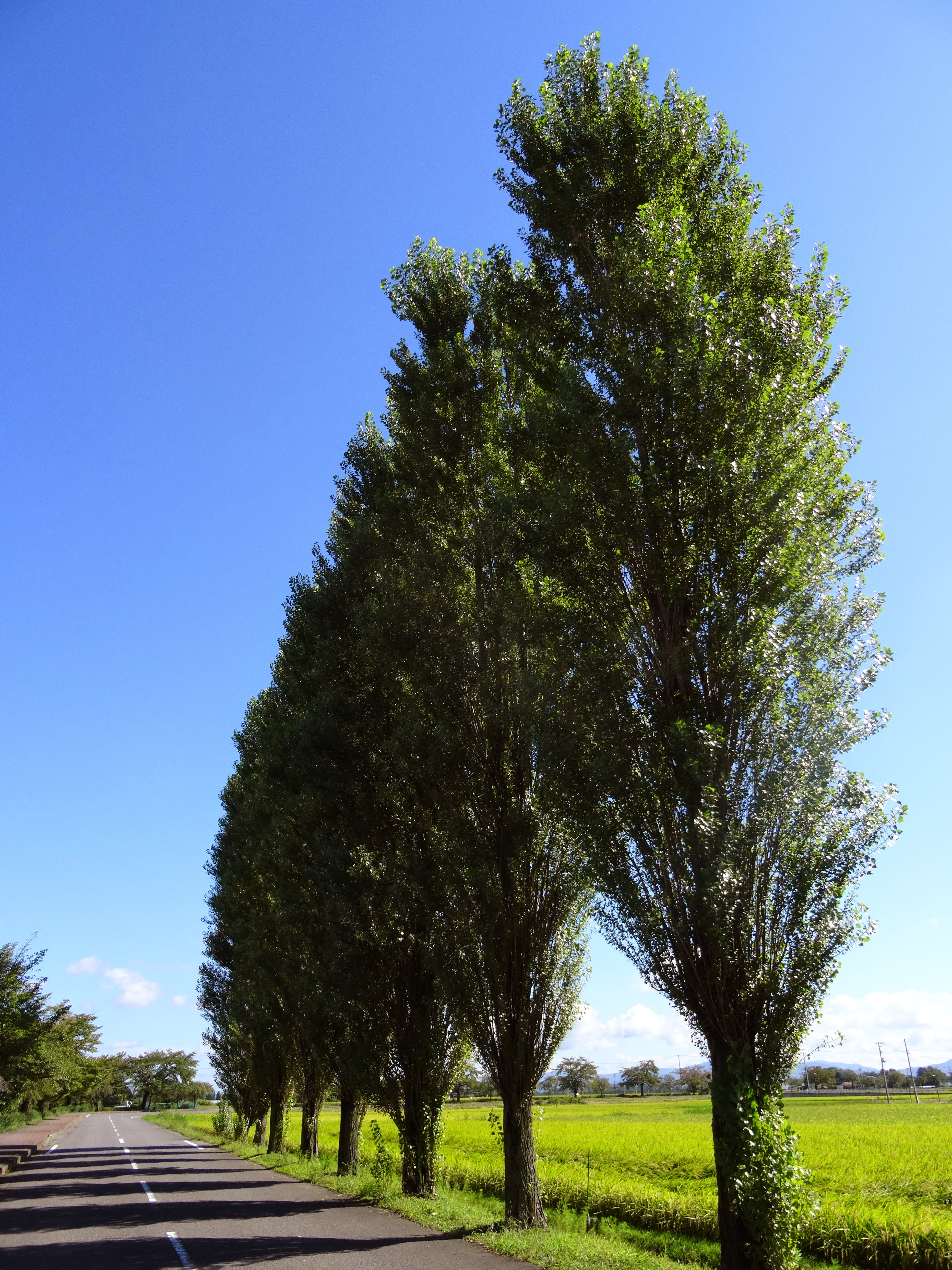 Midorimachi, Kagamiishi, Iwase District, Fukushima Prefecture 969-0404, Japan